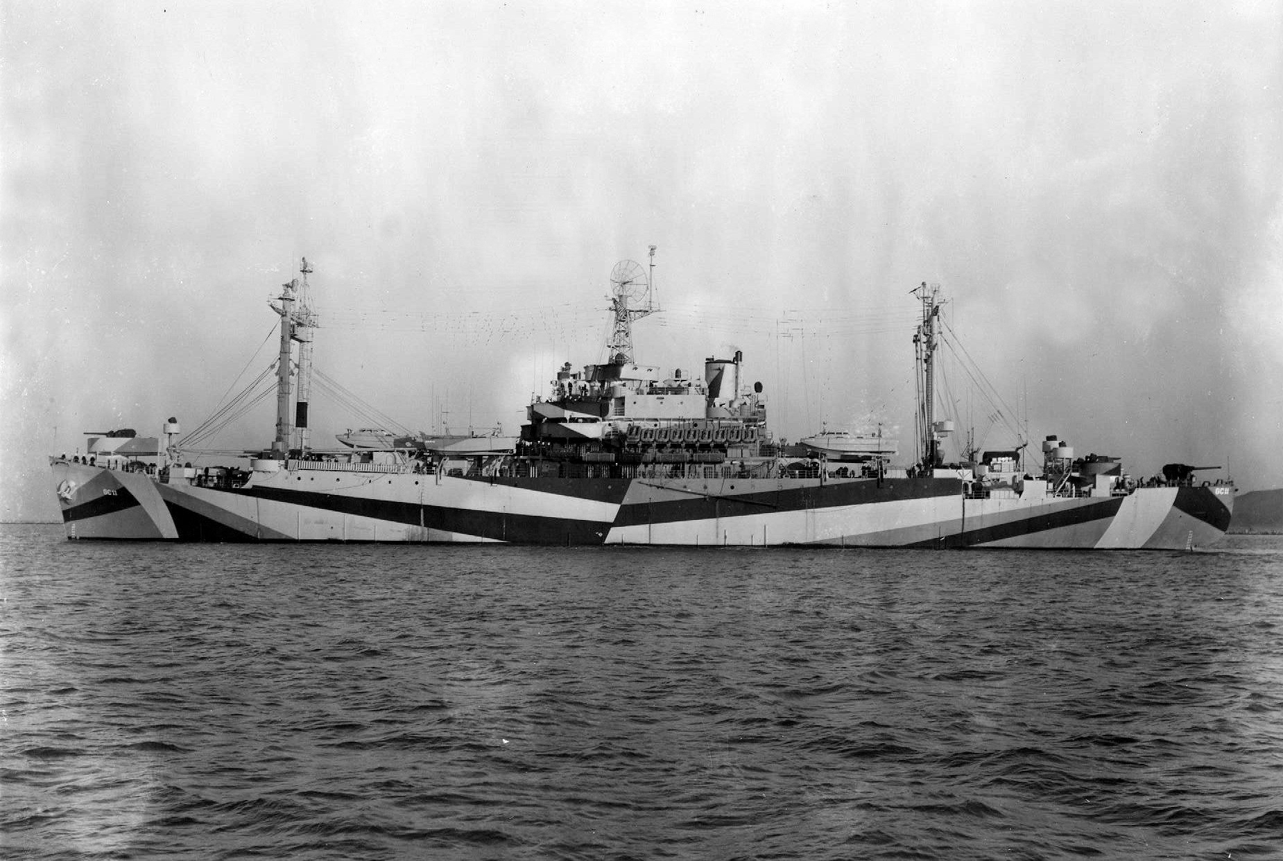 The U.S. Navy amphibious force command ship USS Eldorado (AGC-11) departing the Mare Island Naval Shipyard, Vallejo, California (USA), on 22 November 1944. Eldorado was in overhaul at Mare Island from 1 October to 22 November 1944.